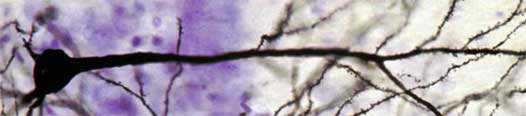 Golgi-stained Neuron with cell body, axon, and dendrites